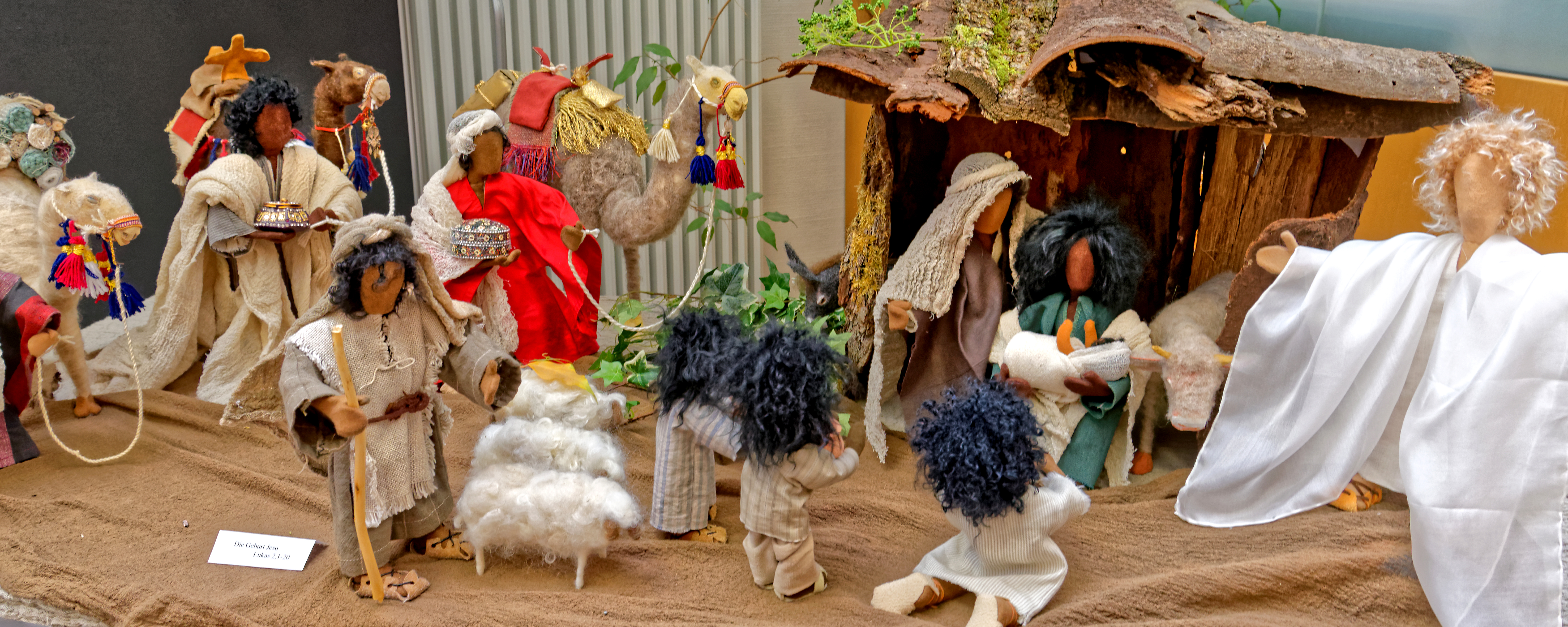 Gerhard and Marianne Erber have made these beautiful figures for original Egli figures as instructor.